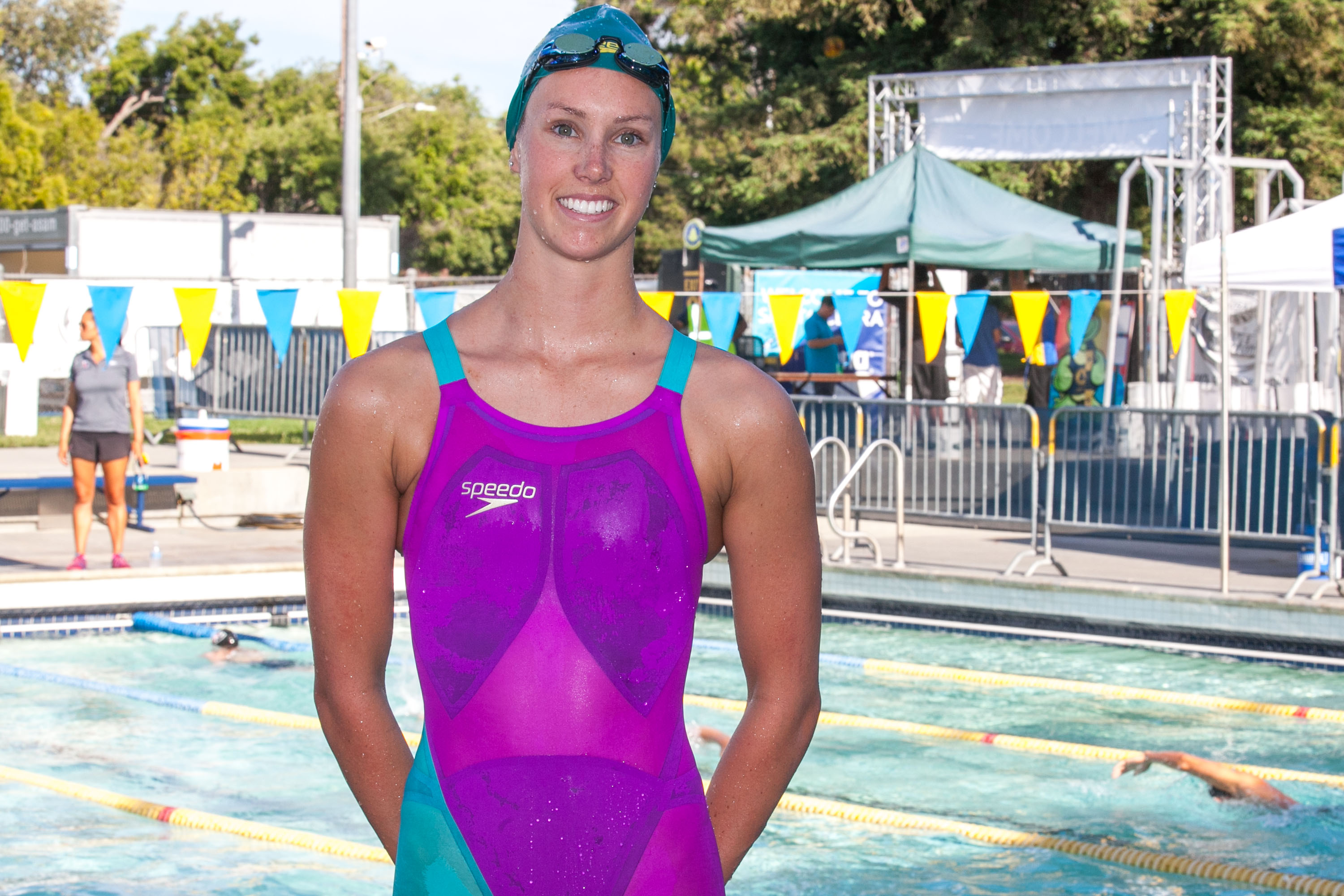 Australian swim great Emma McKeon at the 2016 Santa Clara Arena Grand Prix.